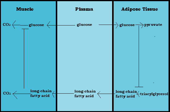 This is a simplified overview of the Randle Cycle.